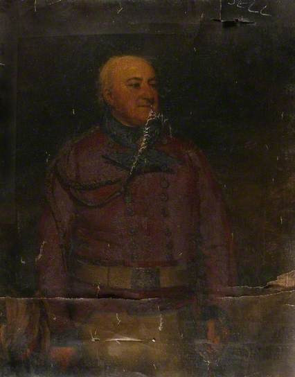 Portrait of General Sir Charles Green